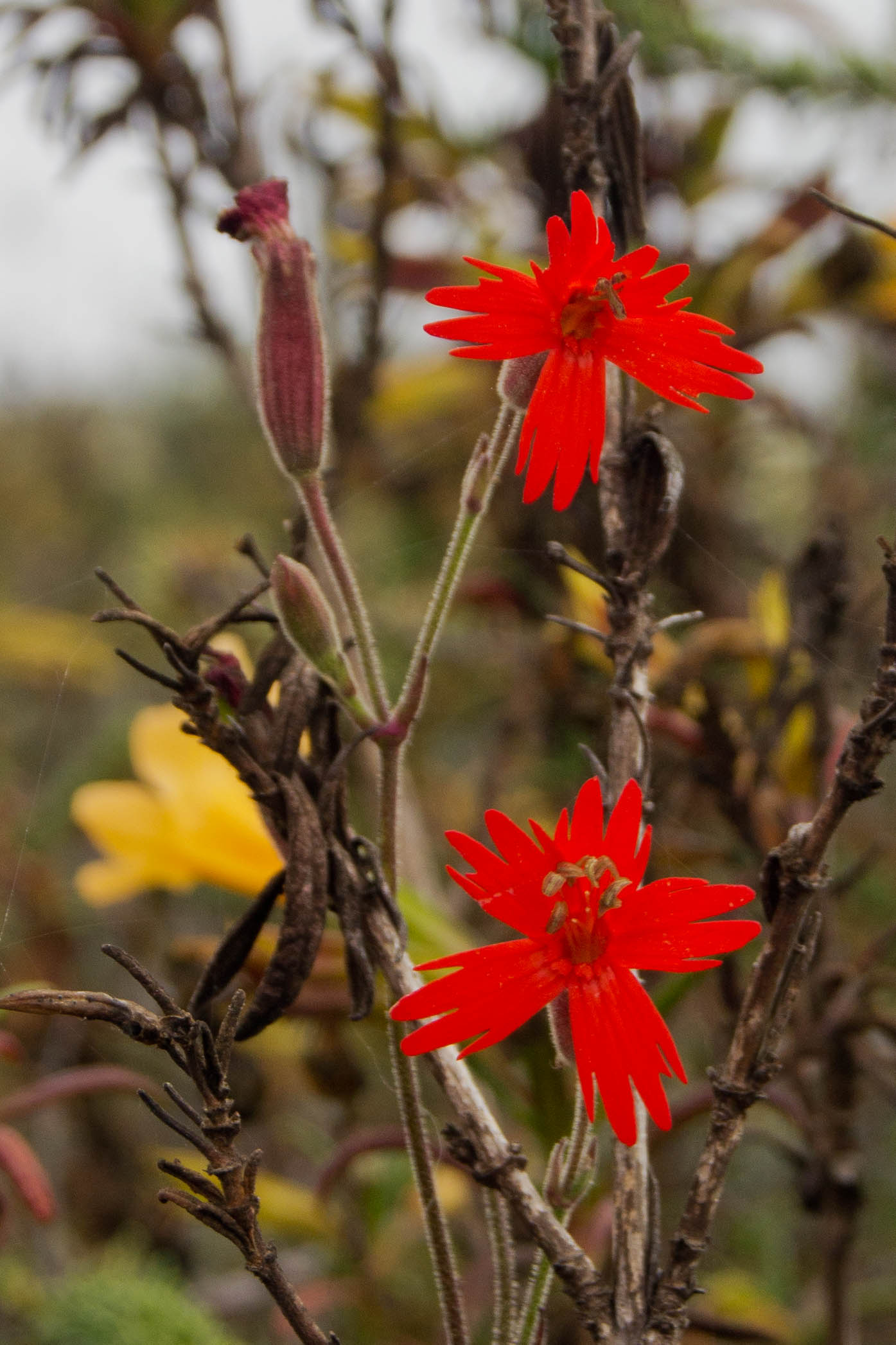 Silene laciniata — Cardinal catchfly. El Moro Elfin Forest Natural Preserve, Los Osos, San Luis Obispo County, California.